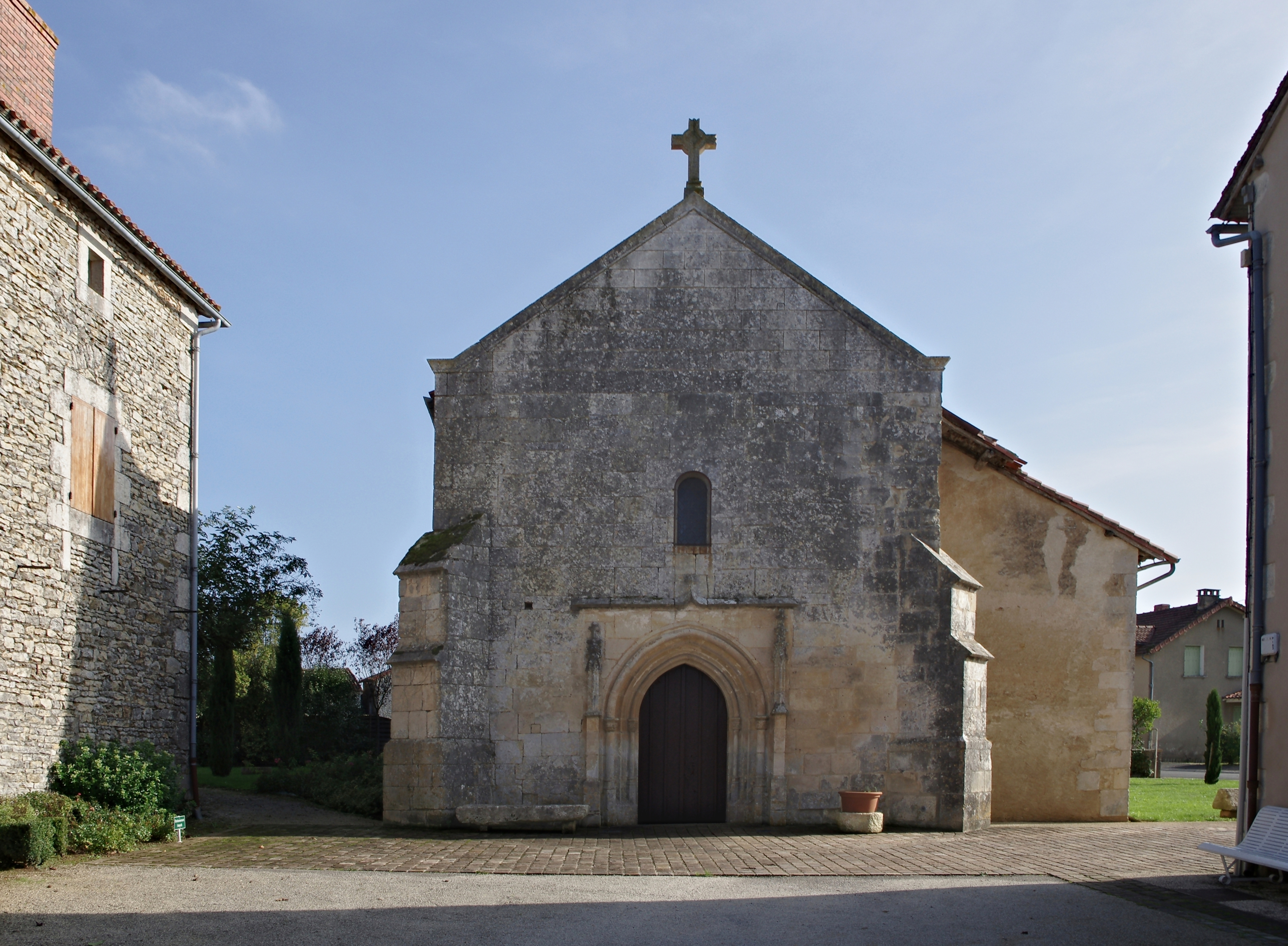 Church of Saint-Martin : facade. Champniers, Vienne, France.